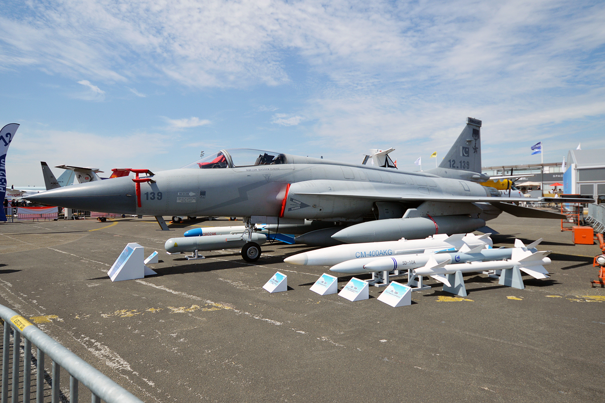 Pakistan Air Force, 12-139, Chengdu JF-17 Thunder